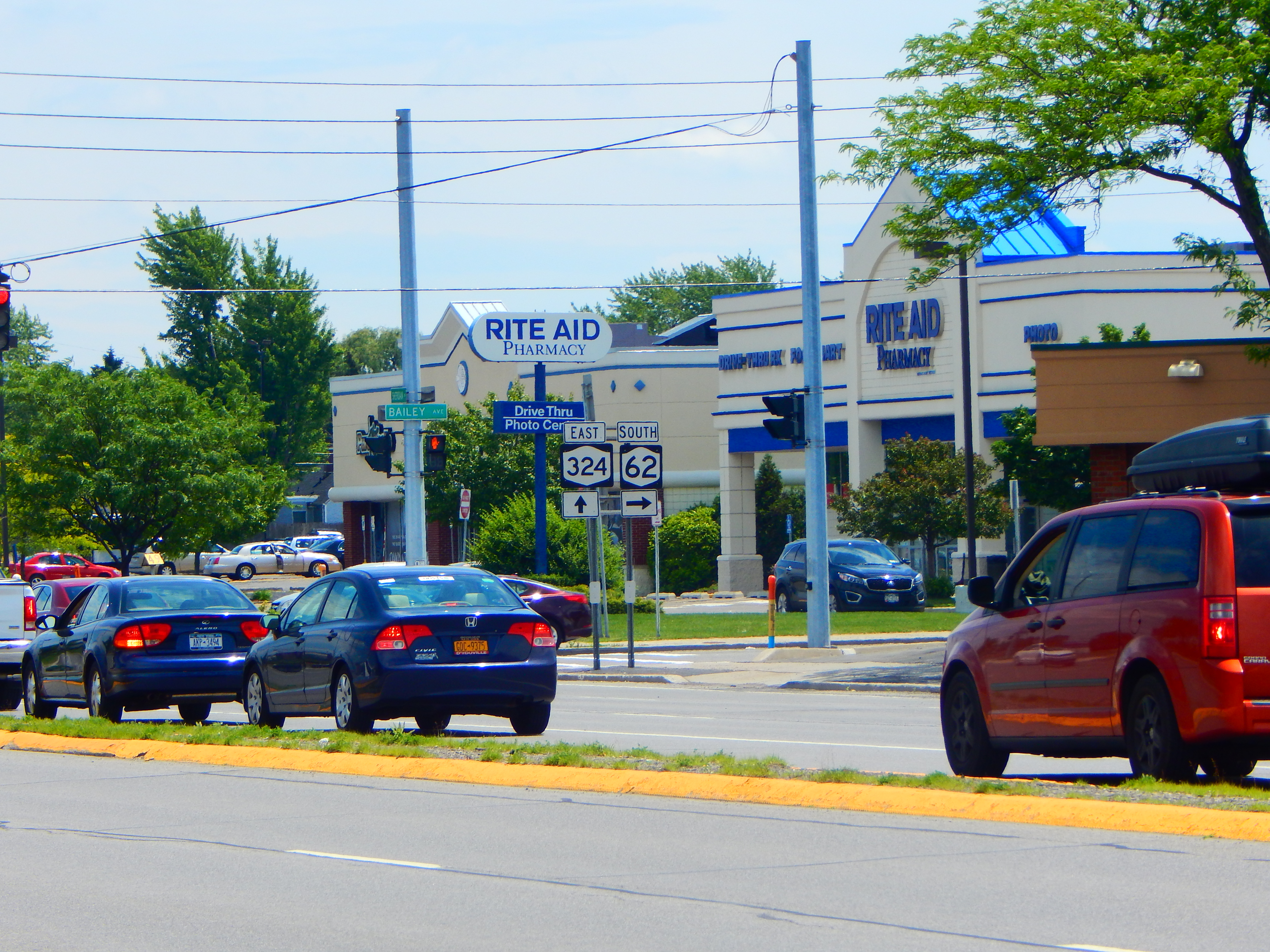 Erroneous signage for US 62 in Amherst, New York.